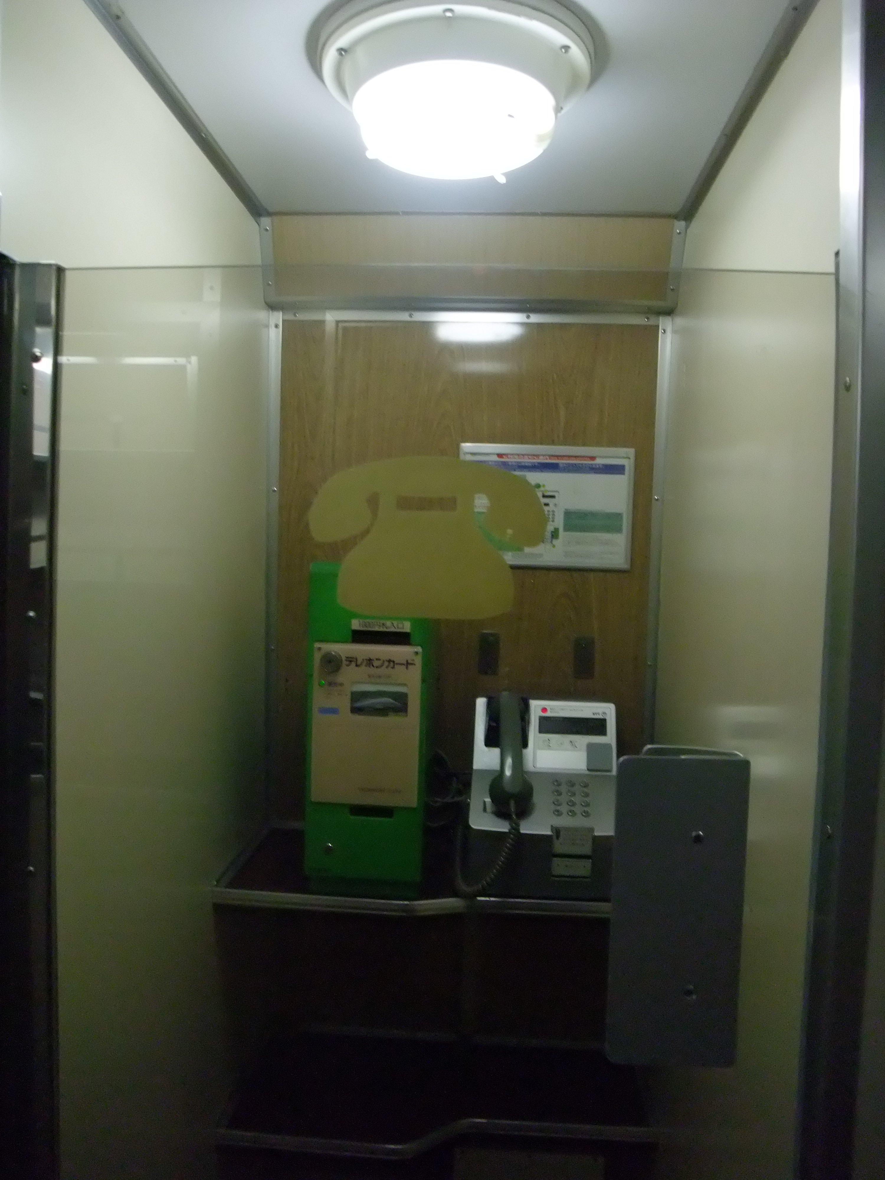 Shinkansen 0 series telephone booth